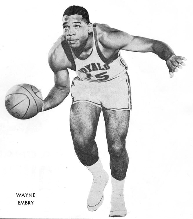 Professional basketball player Wayne Embry